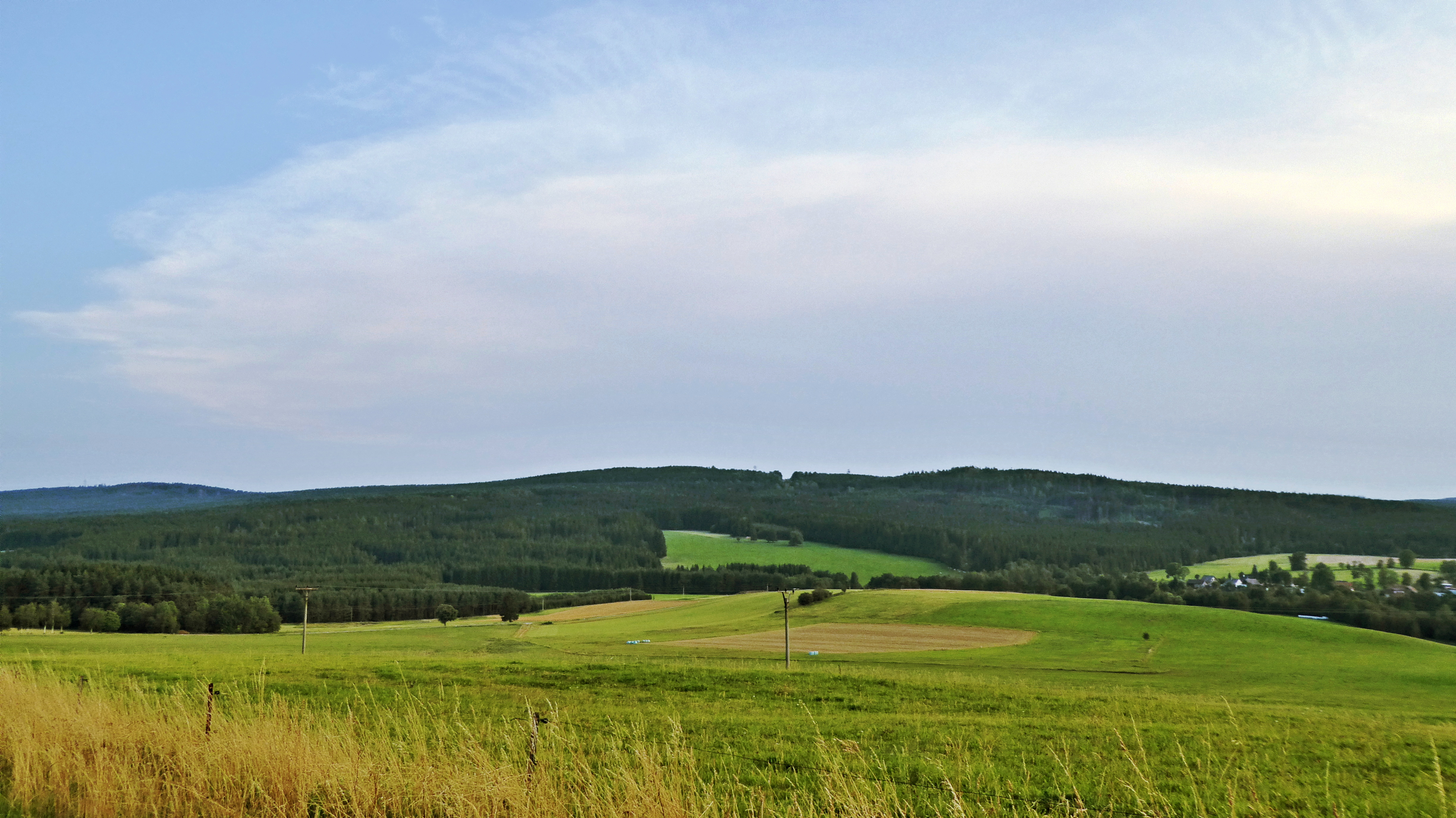 "Pohledeckoskalská" highlands, the landscape area and the geomorphological district of the "Žďárské" Hills. In the wooded ridge of highland above the municipality "Kadov" is the top "Pasecká" rock (819 m above sea level), in the middle of a photo shoot is the top with name "Kopeček" (822 m above sea level), separated by the top of a saddle 787 m above sea level with the road II/354 in the section "Sněžné – Rokytno". On the left, on the horizon, the peak "Pohledecká" rock (812 m above sea level). Photo-location: Czechia, "Vysočina" Region, village "Krátká" (part of municipality "Sněžné", "Pohledeckoskalská" Highlands".